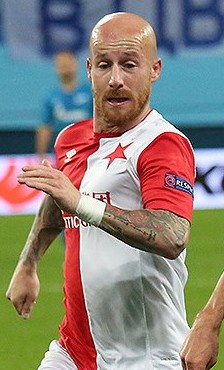 Zenit vs. SK Slavia Prague, 4 October 2018